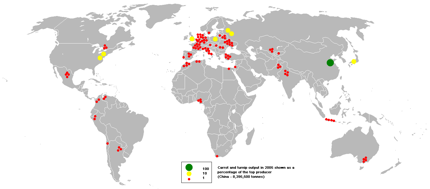 This bubble map shows the global distribution of carrot and turnip output in 2005 as a percentage of the top producer (China - 8,395,500 tonnes). This map is consistent with incomplete set of data too as long as the top producer is known. It resolves the accessibility issues faced by colour-coded maps that may not be properly rendered in old computer screens. Data was extracted on 18th June 2007 from Based on Image:BlankMap-World.png